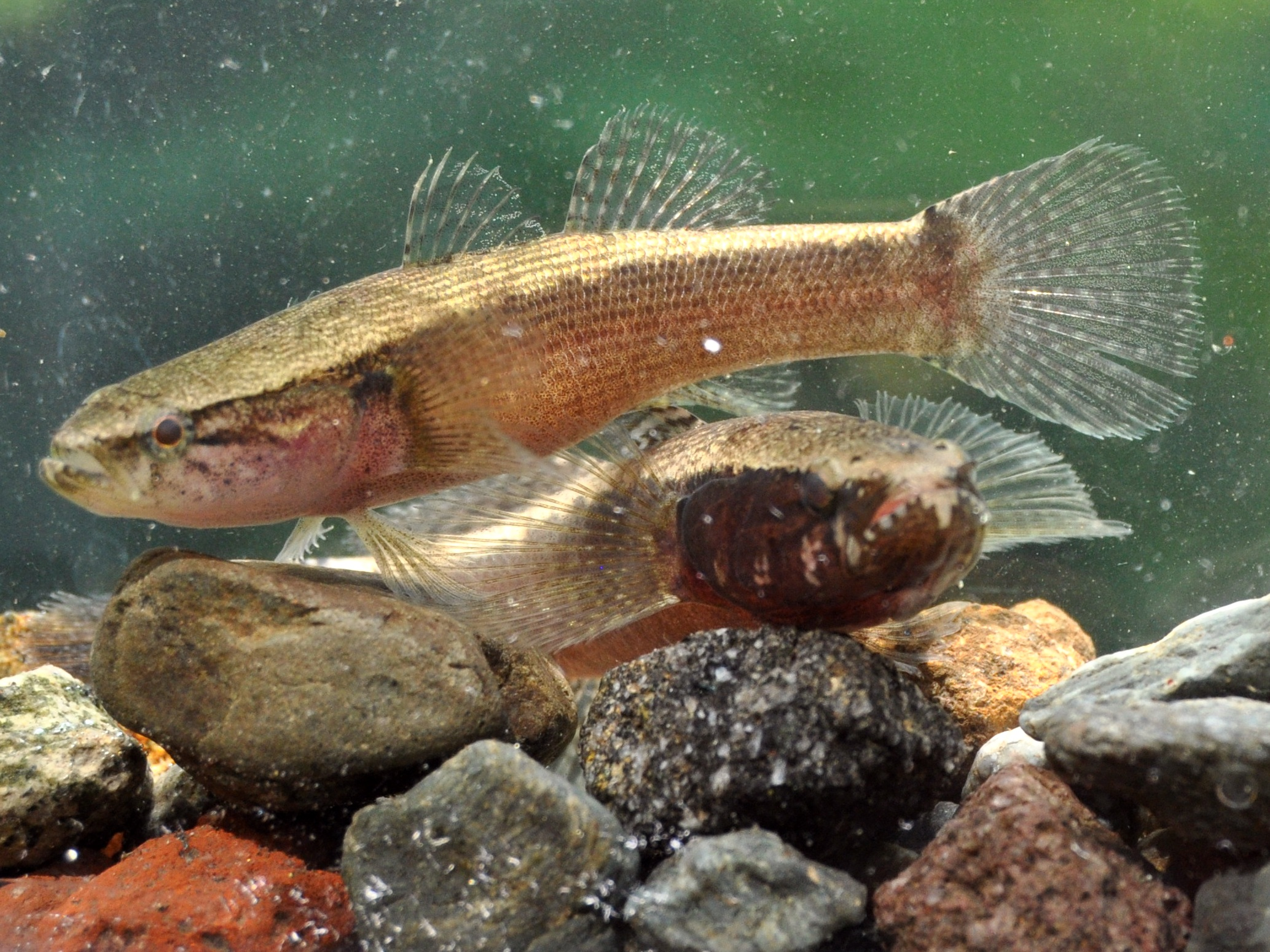 Dusky sleeper, Eleotris fusca, ca 56 mm SL. From Banyumas, Central Java, Indonesia.